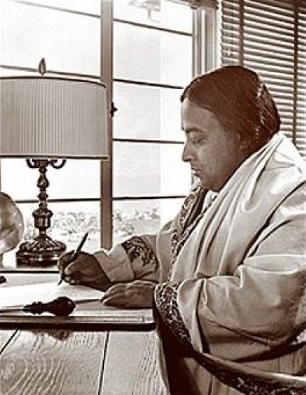 Paramahansa Yogananda write.